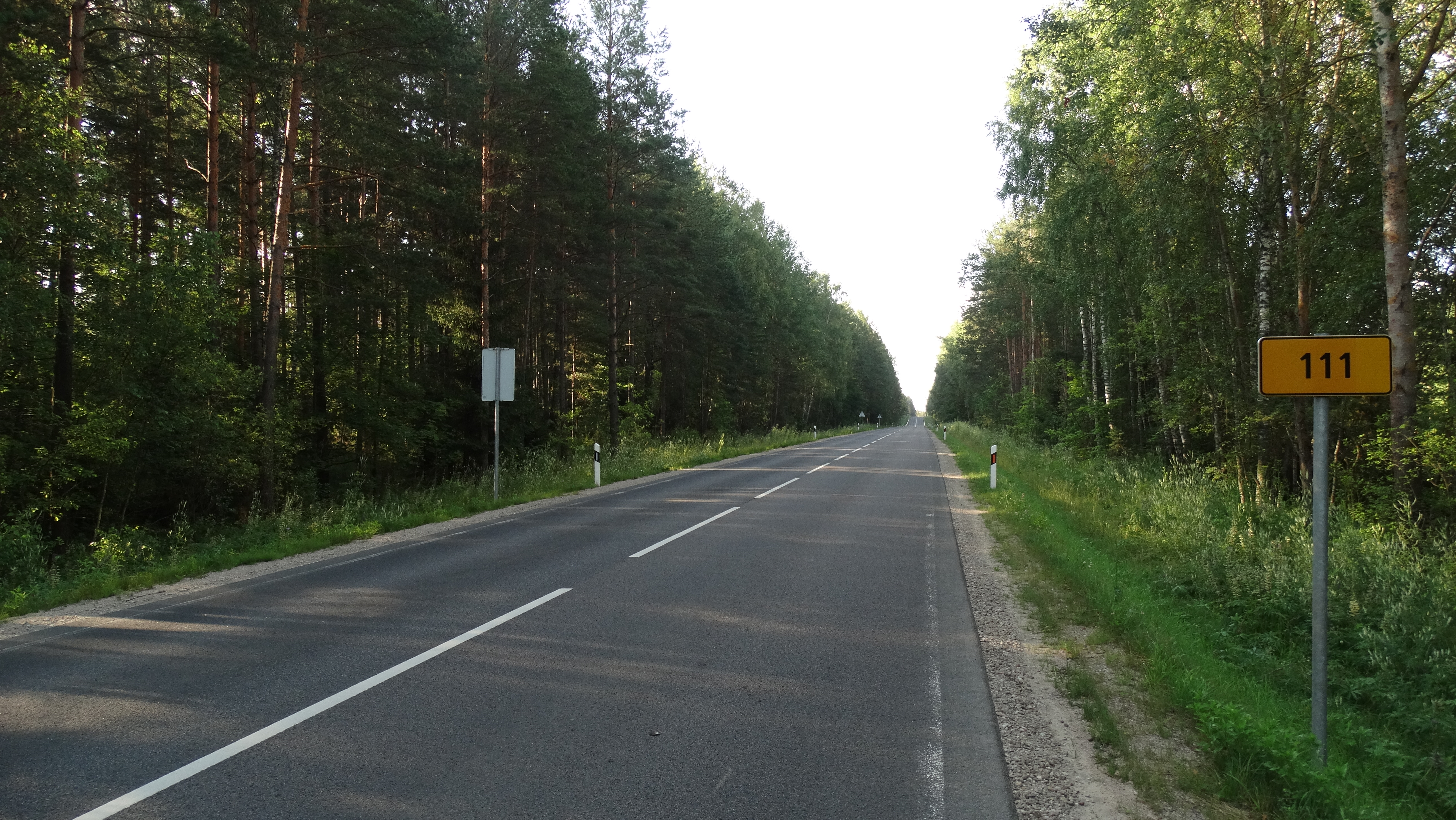 Road 111, Švenčionys district, Lithuania